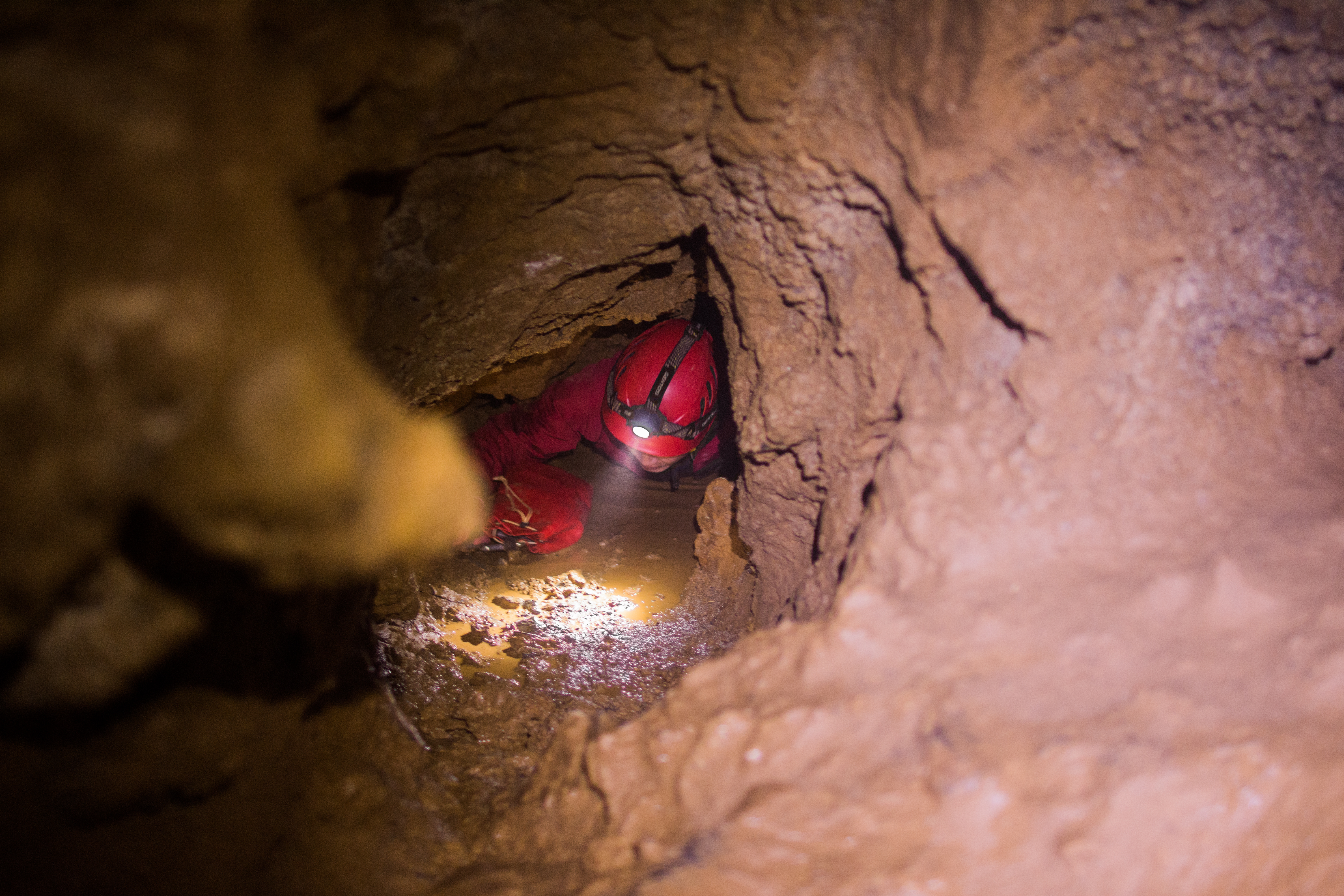 D-shidou ("D-branch") in Kawachi no Kaza-ana("Kawachi Wind Cave").